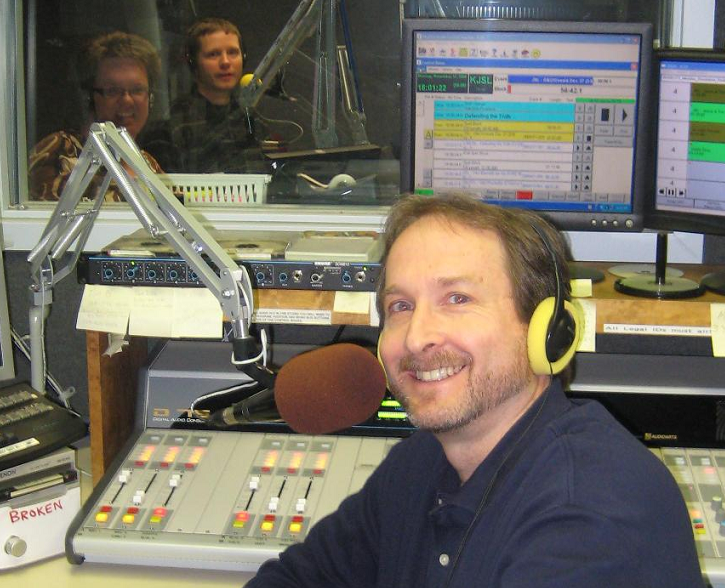 Bob Wells Show KJSL radio studio taken on November 2008